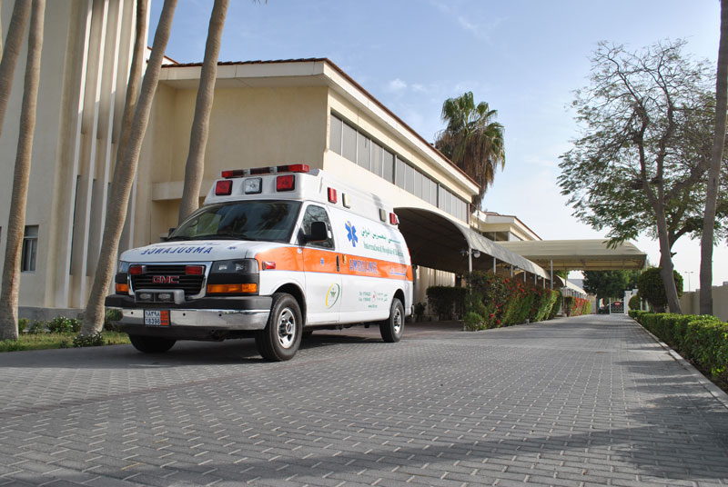 Ambulance on the IHB 24-hour emergency driveway